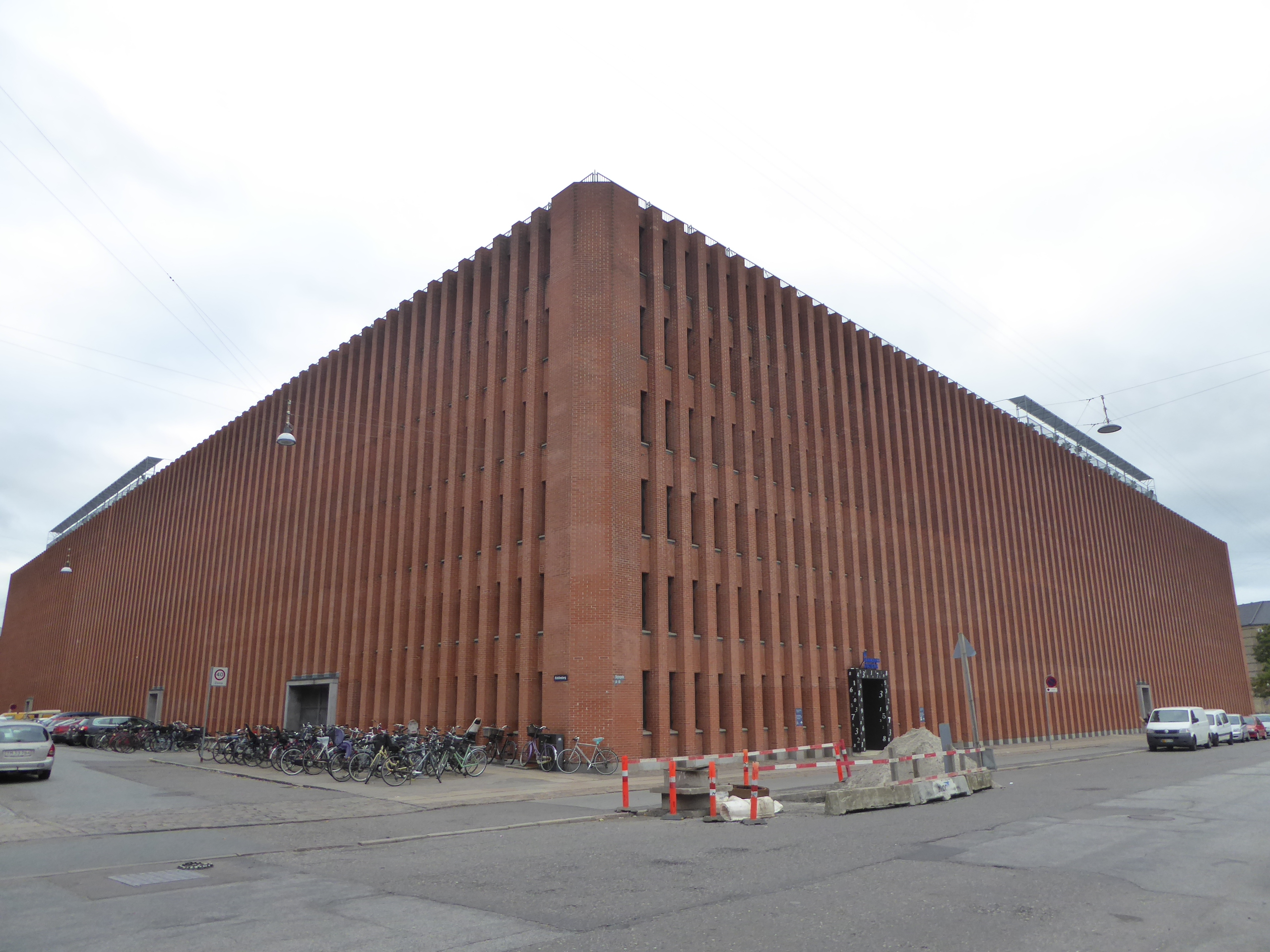 The office building of Danmarks Statistik (Statistics Denmark) at the corner of Kristineberg and Sejrøgade in Østerbro in Copenhagen.